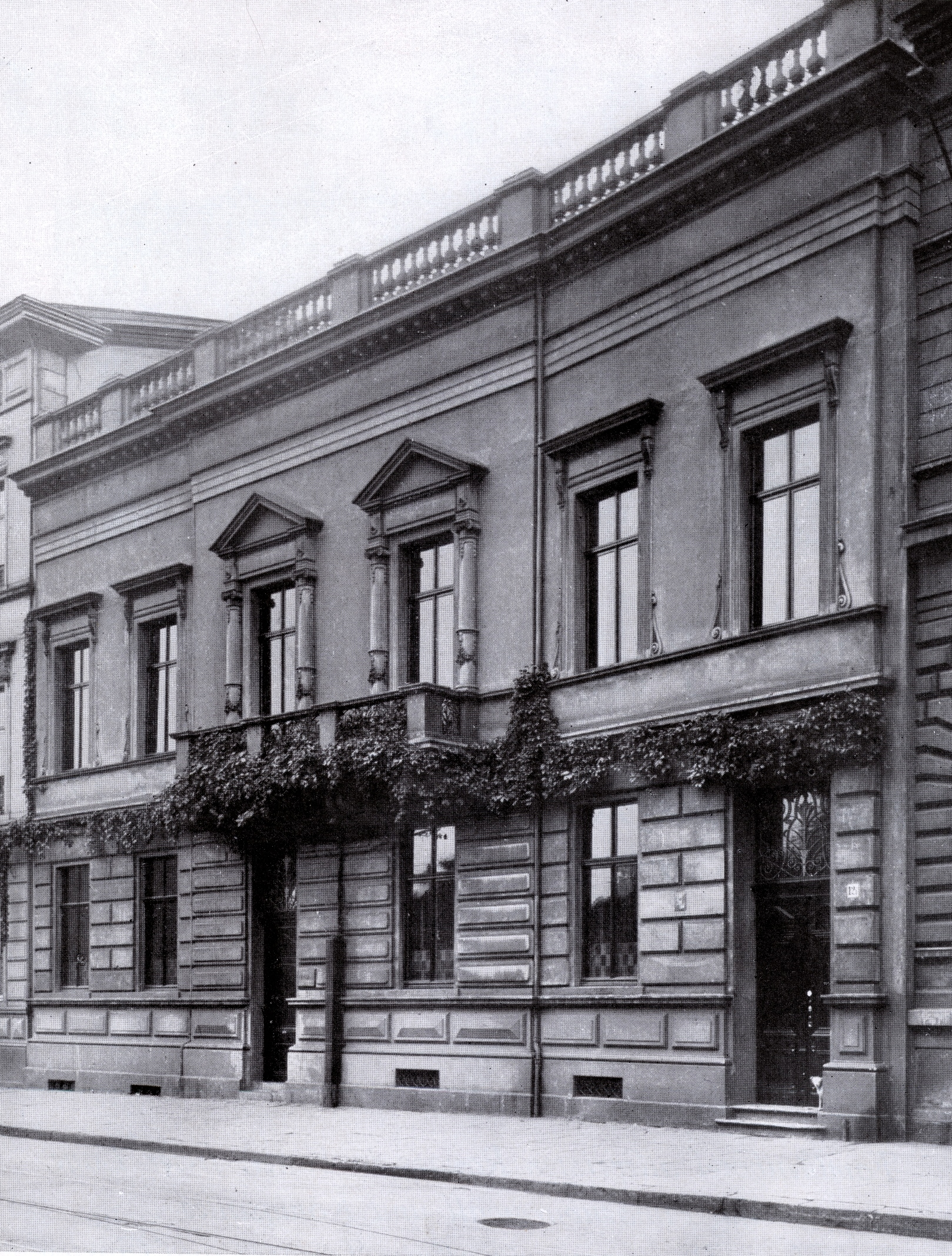 t